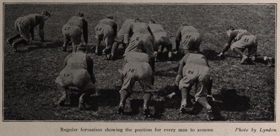 Regular formation showing the position for every man to assume. Photo by Lyndon.